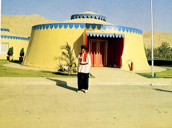 Tent of the tent city at Persepolis, 2.500 celebration of Iranian Monarchy.